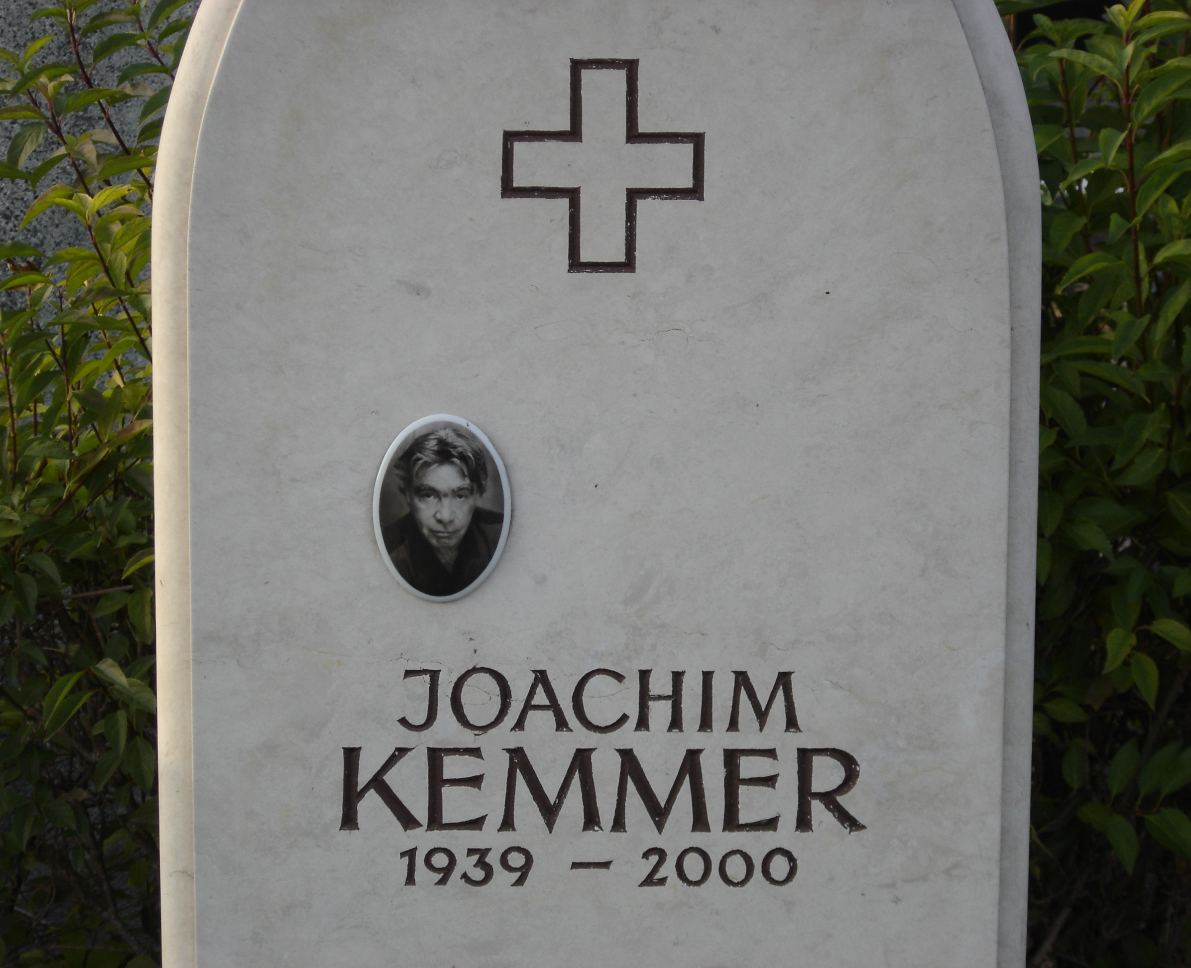 Zentralfriedhof Vienna - grave of Joachim Kemmer (November 2004)